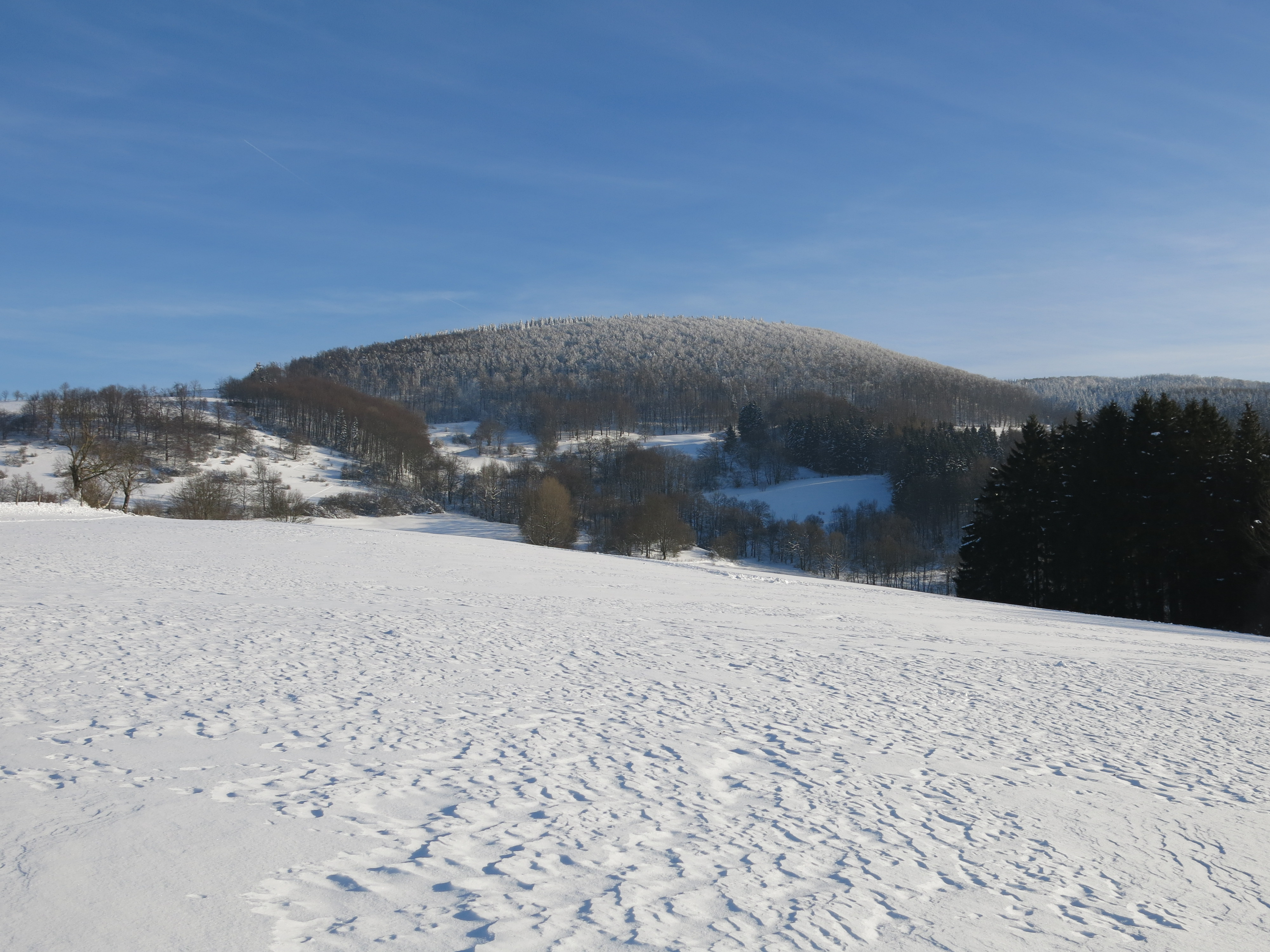 View from North to Hohe Hölle in the Rhön Mountains.